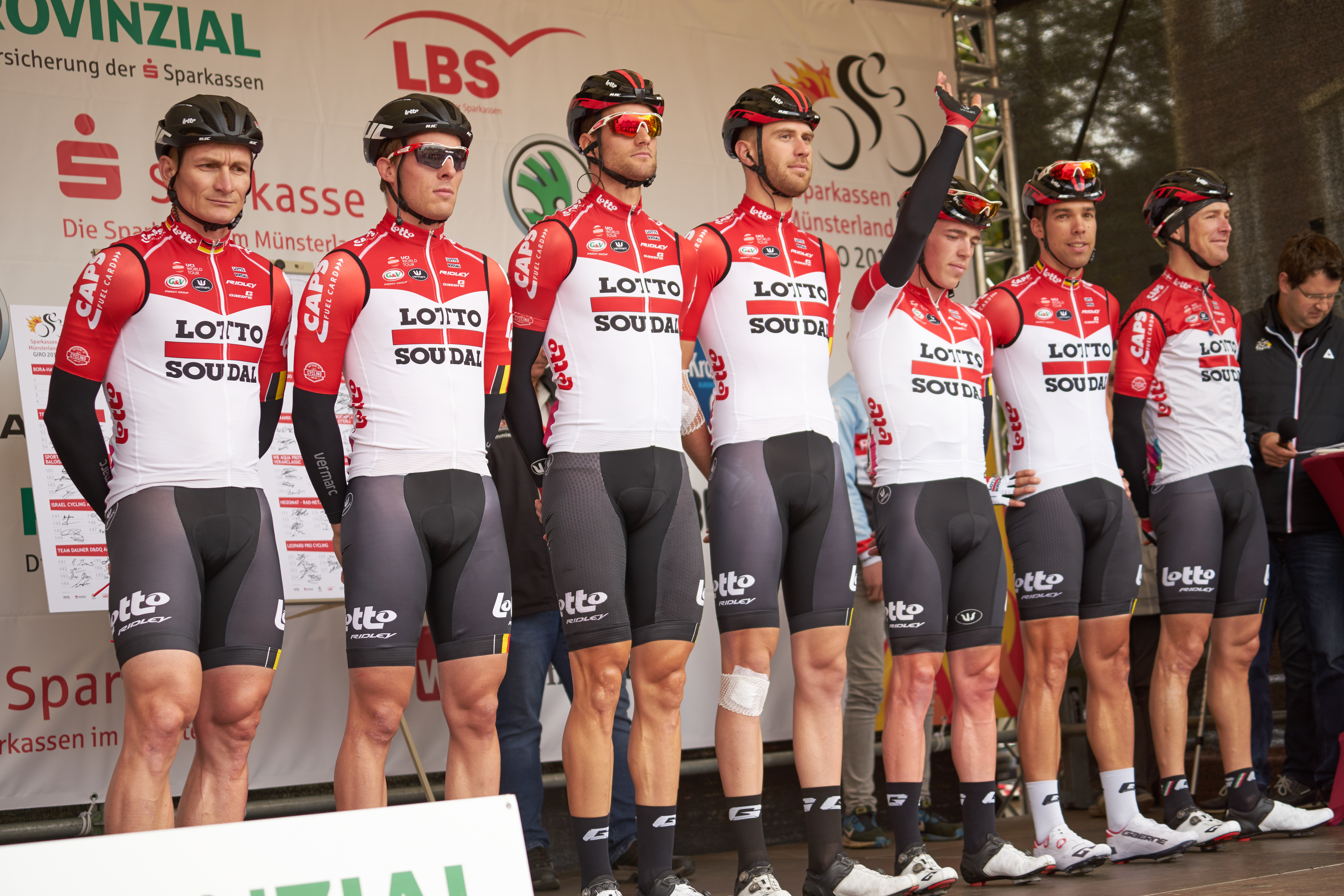 Münsterland Giro 2018, Team Lotto-Soudal in Coesfeld (start location).